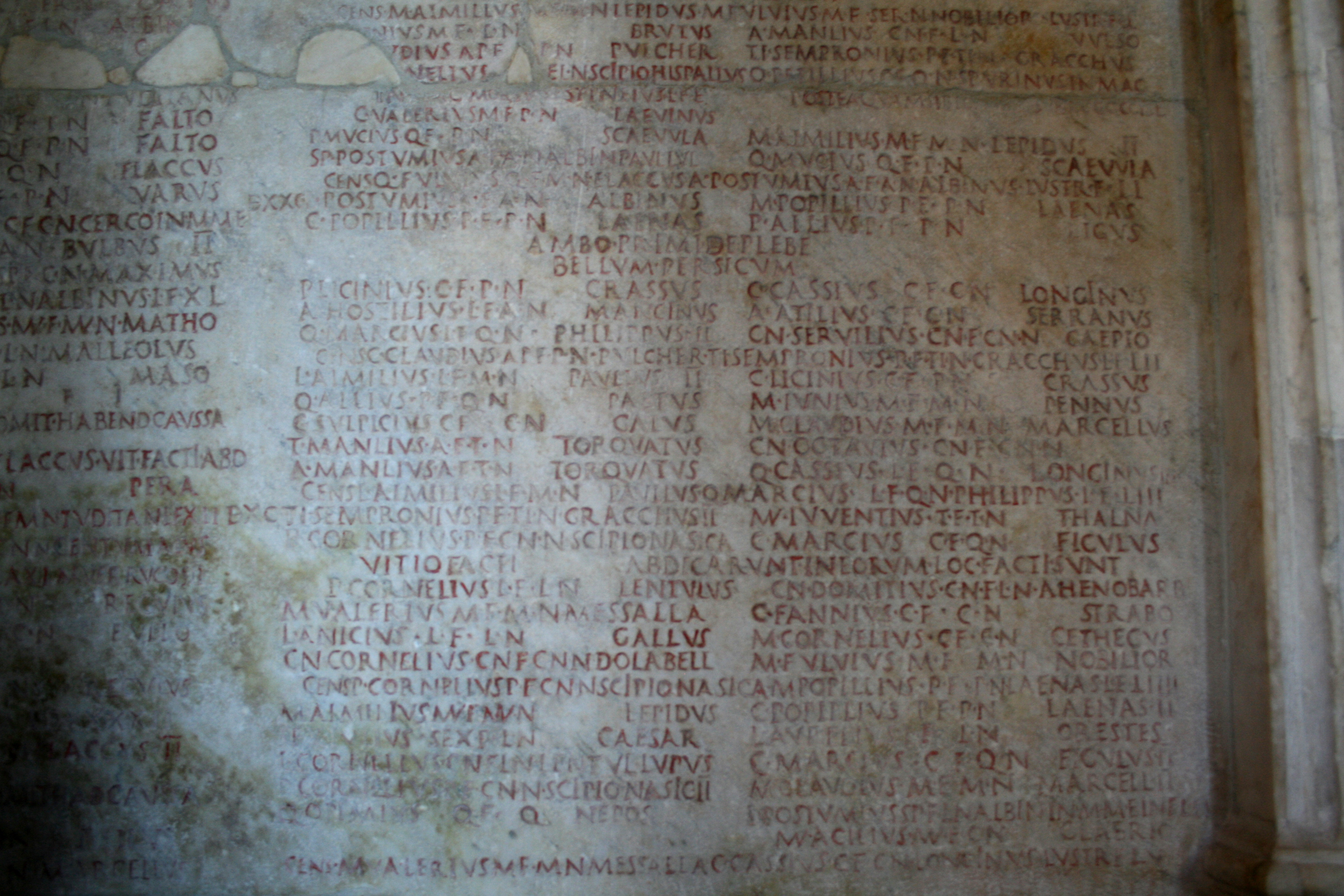 Fasti capitolini.